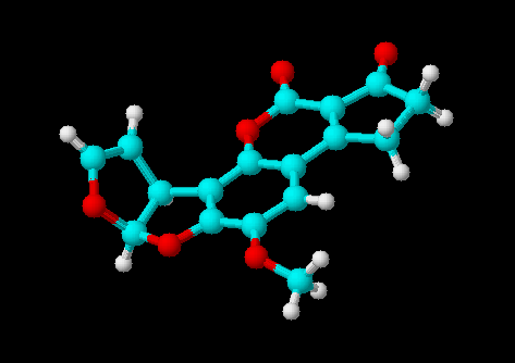 3D Model of Alfatoxin B1